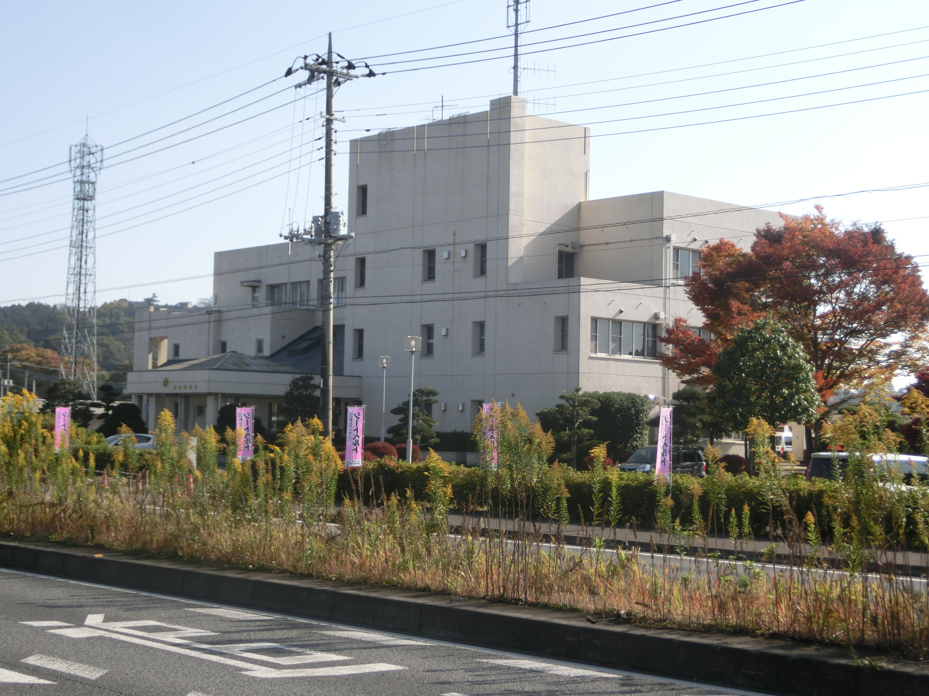 Kasama Police Station